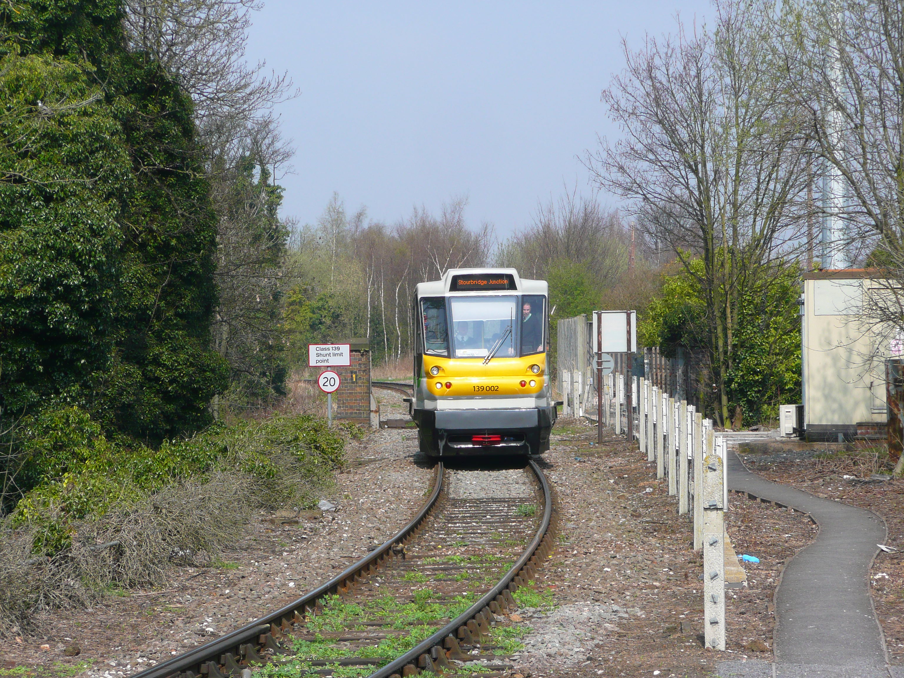 PPM60 139 002 Approaching Stourbridge Junction station.